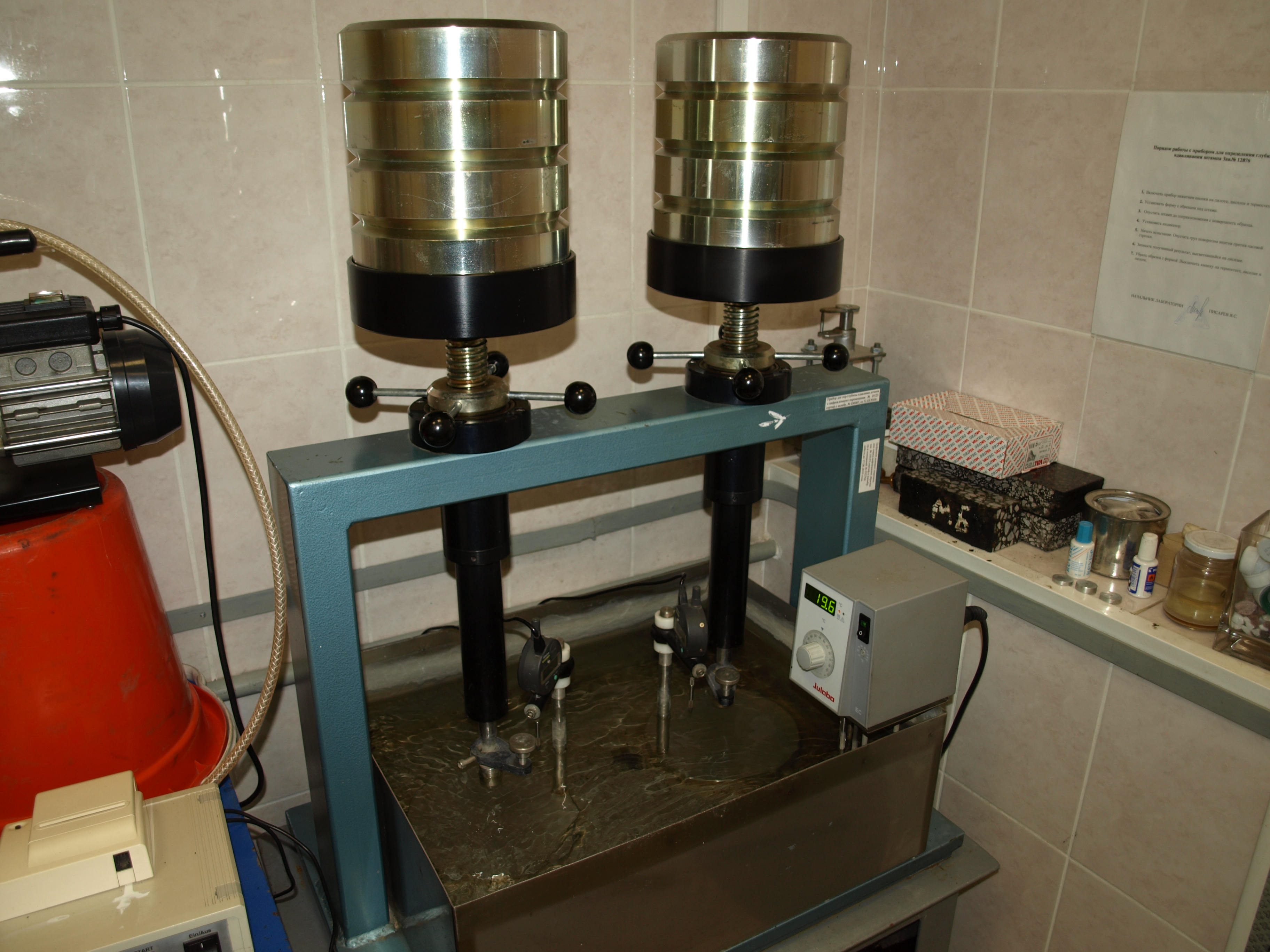 A test rig (calibrated press) for measuring hardness of construction materials.